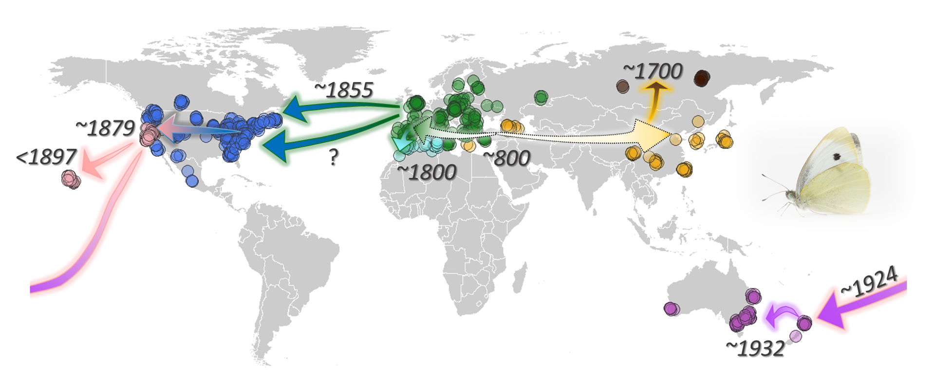 Dates of first introduction and source (direction) of spread